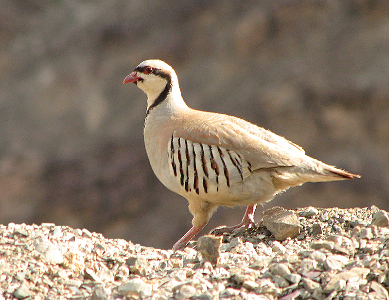 Alectoris chukar at Spituk, just outside Leh.